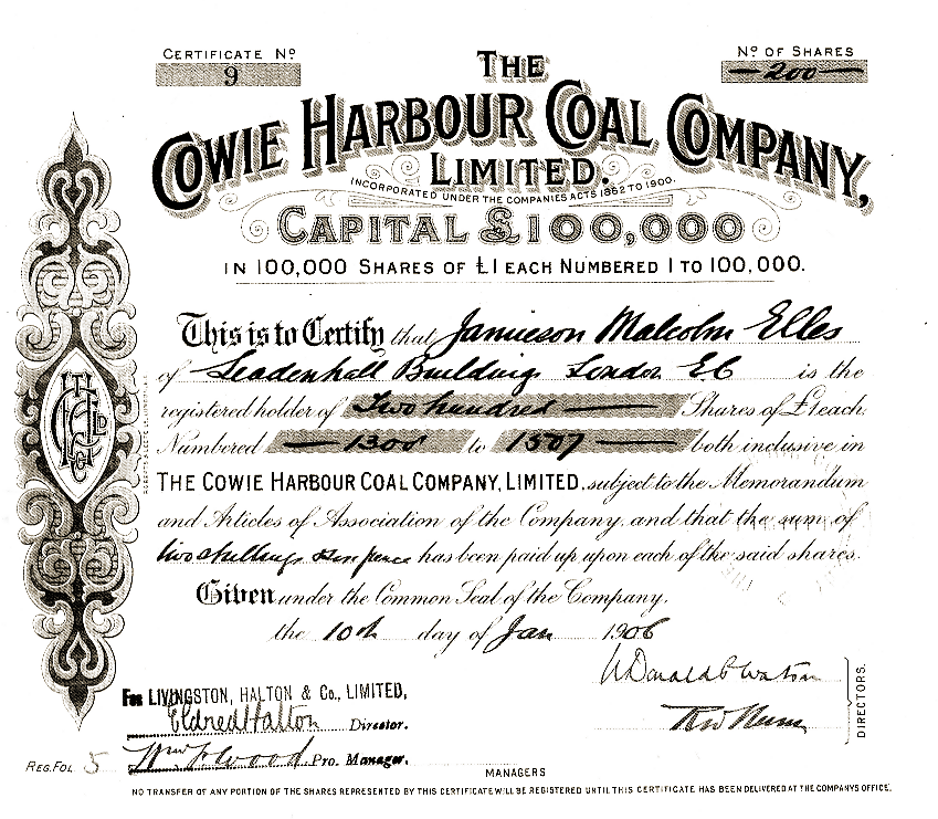 Share of the Cowie Harbour Coal Company Ltd., 1906